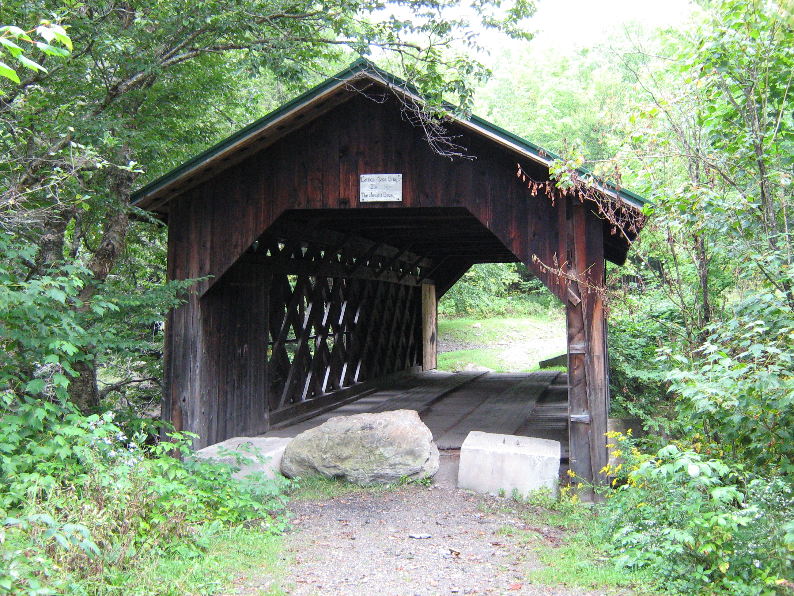 Built by Sheldon and Savannard Jewett, 1883 Town Lattice, 40', spanning West Hill Brook on Creamery Bridge Road, 3 miles south off Route 118. Natural waterfall at bridge. The Jewett brothers got their start at this long-abandoned settlement, using the brook to power their sawmill. Restored in 2009 Object location44° 52′ 03″ N, 72° 38′ 53″ W